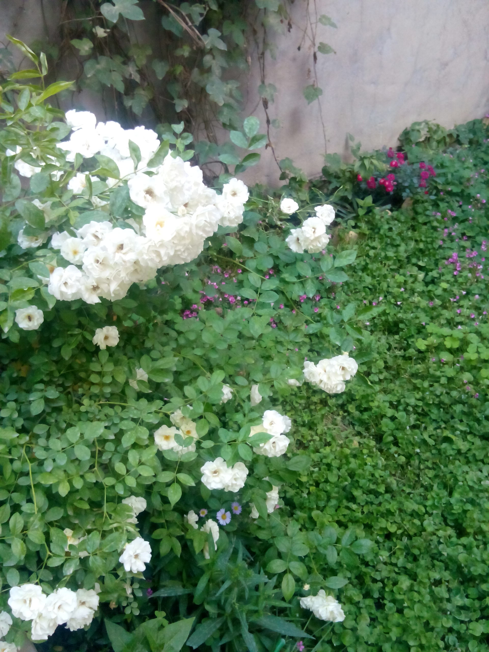 Wight Flowers in the Garden